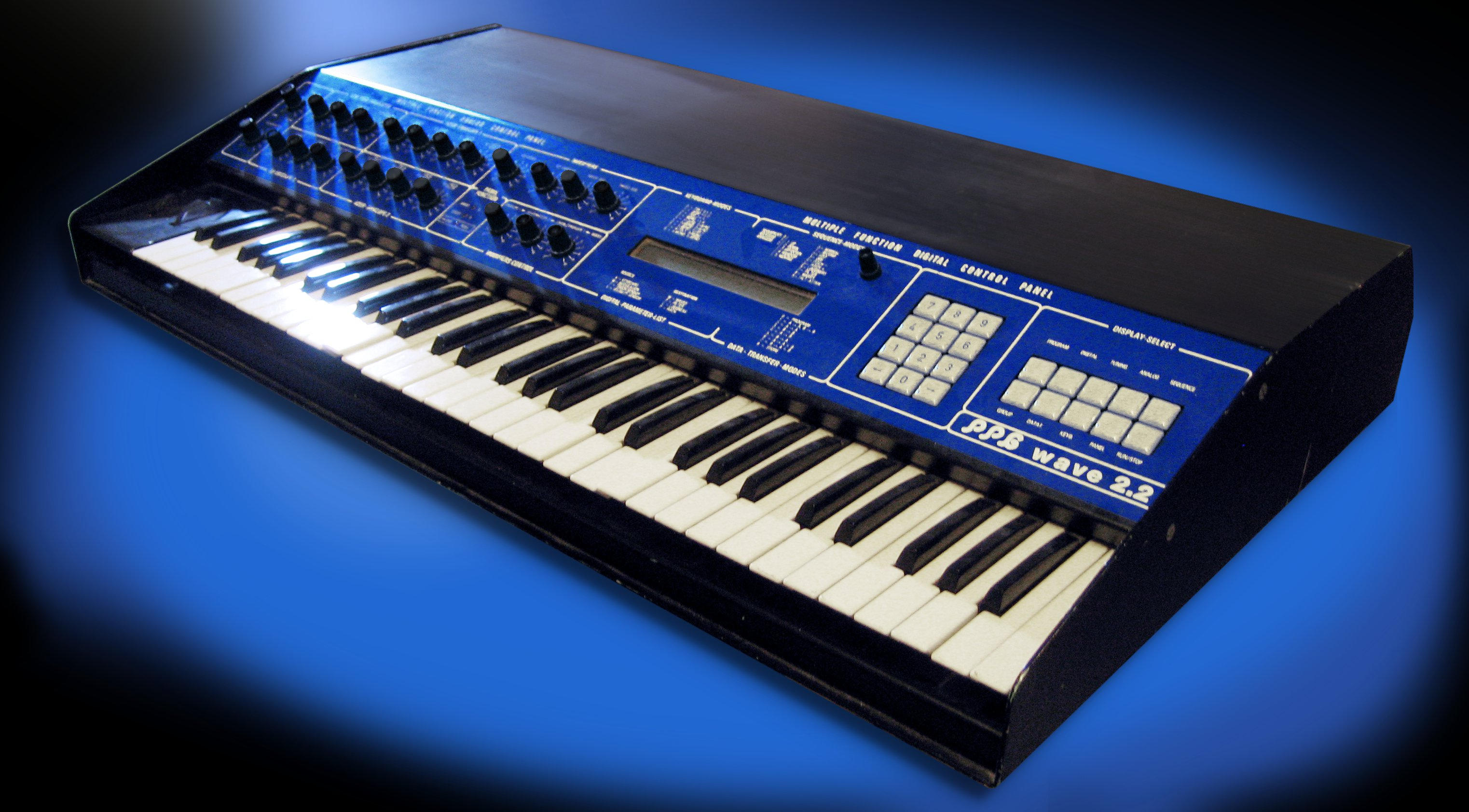 PPG Wave 2.2 Serial No. 01462 (Note: above link is a preview of original Flickr images licensed under CC-BY-SA-2.0, as written on the site)